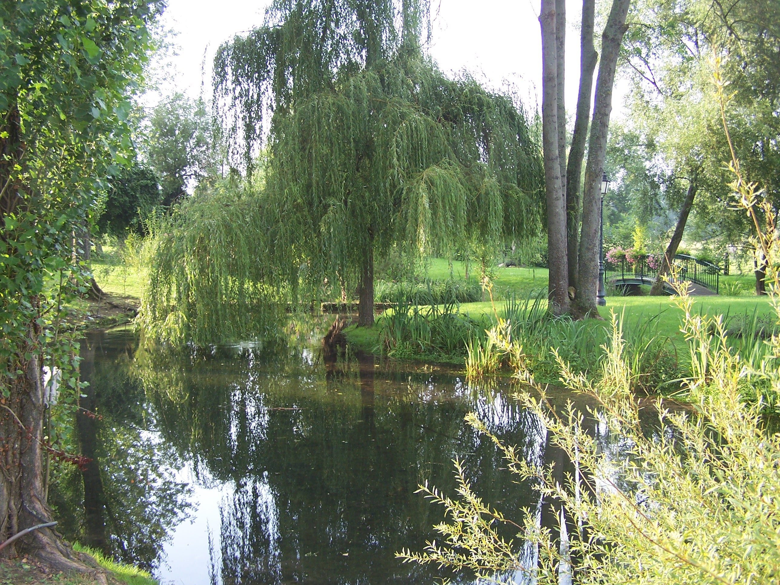 Source of the Vaucouleurs River in Boissets (Yvelines, France)